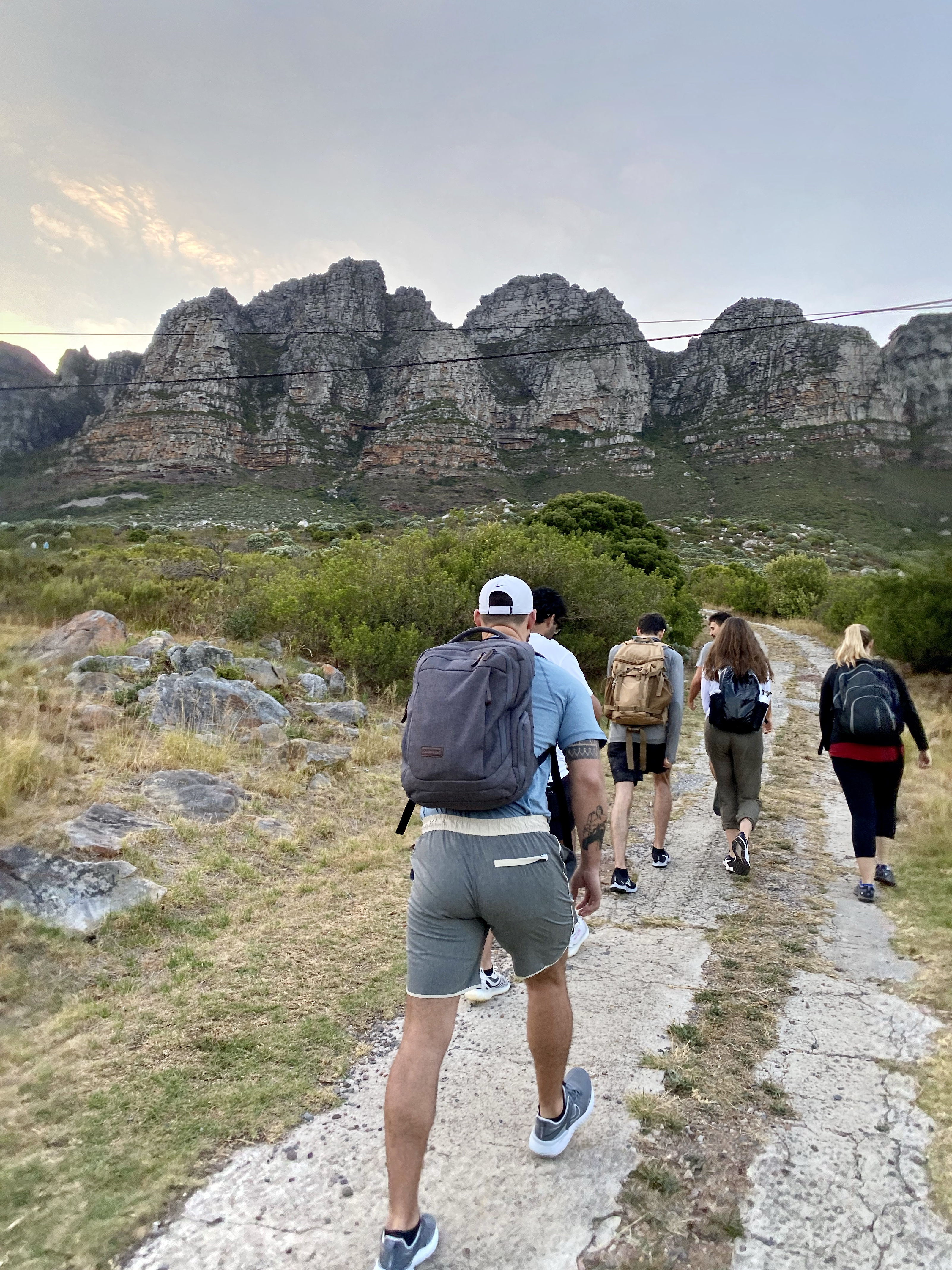 This is an image with the theme "Africa on the Move or Transport" from: South Africa